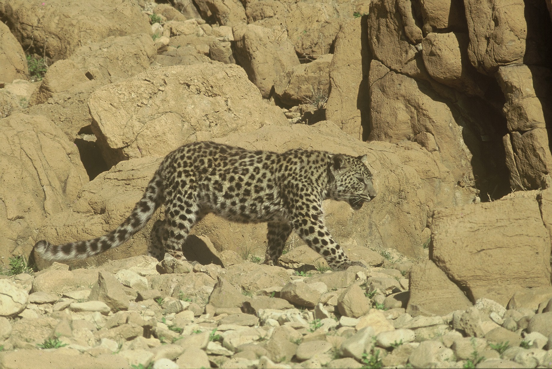 Judean Desert leopard - Thmt morning walk on a cliff copies at Ein Gedi 1985